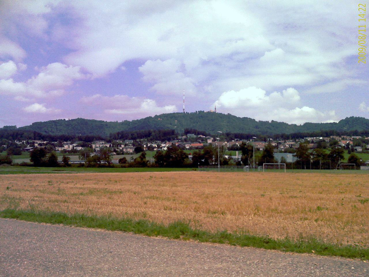 Wettswil with Uetliberg, canton of Zürich, SwitzerlandEsperanto: Wettswil kun monto Uetliberg Wettswil, Kantono Zuriko, Svislando